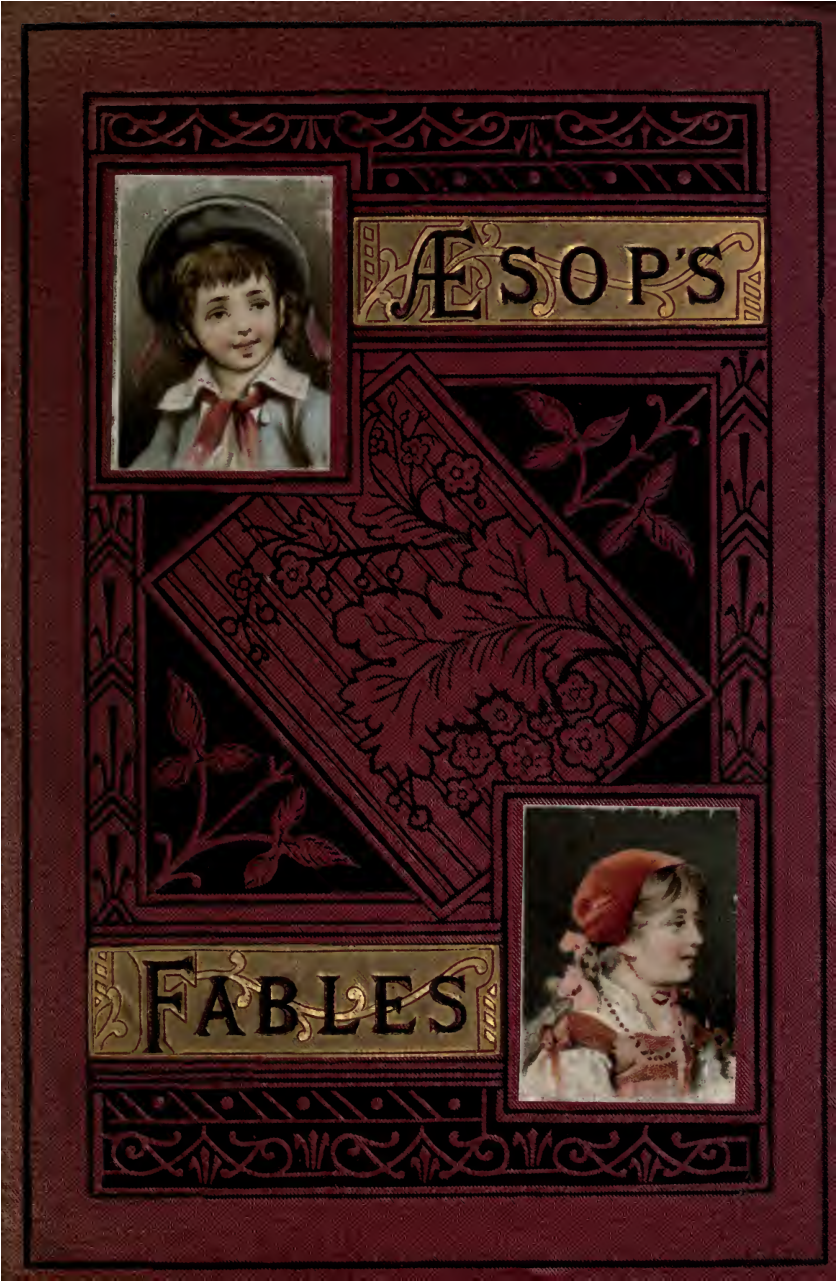 Illustration from the cover of Three Hundred Æsop's Fables by George Fyler Townsend, illustrated by Harrison Weir.